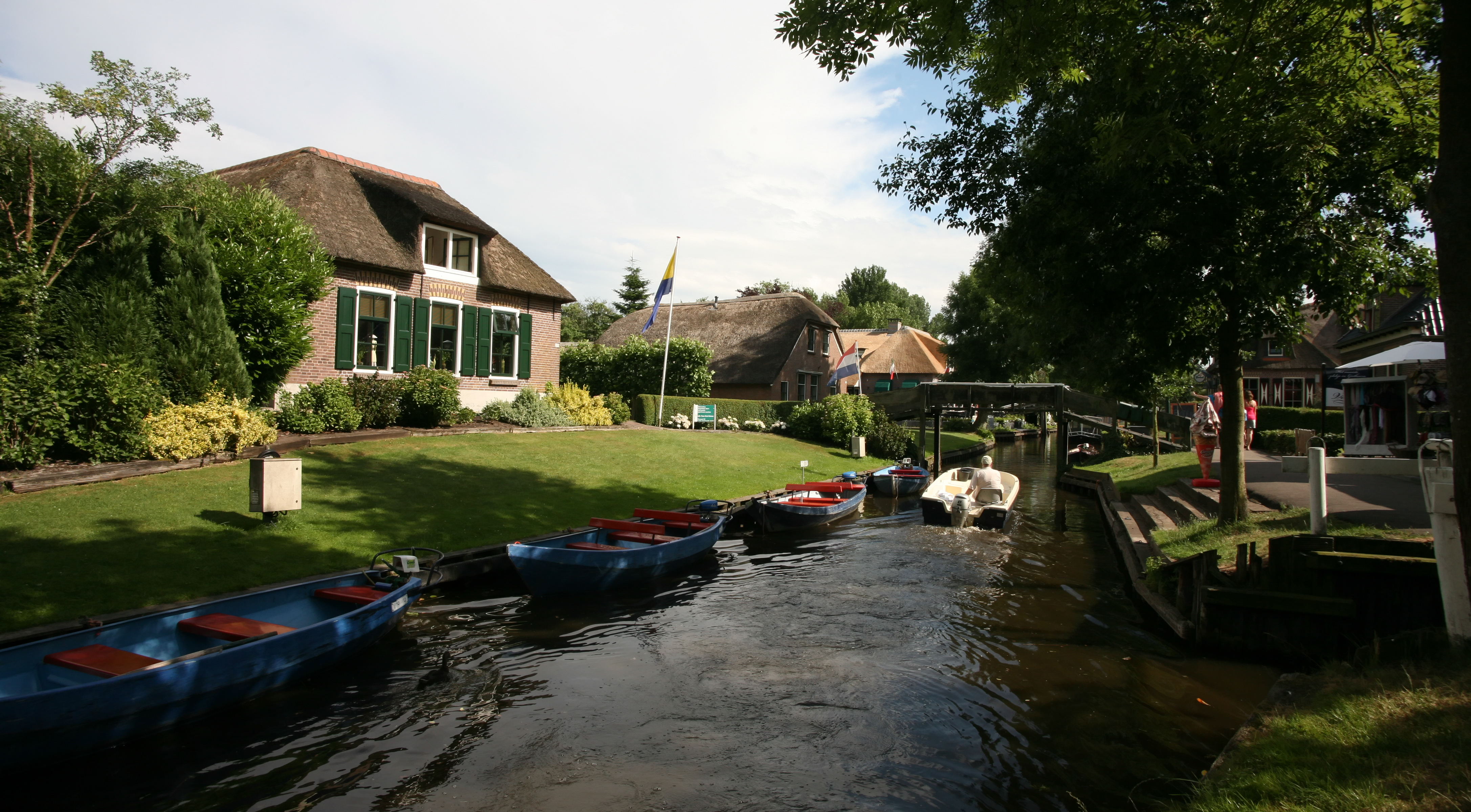 Canals in Giethoorn, Netherlands; a.k.a. the Venice of the North / Venice of the Netherlands